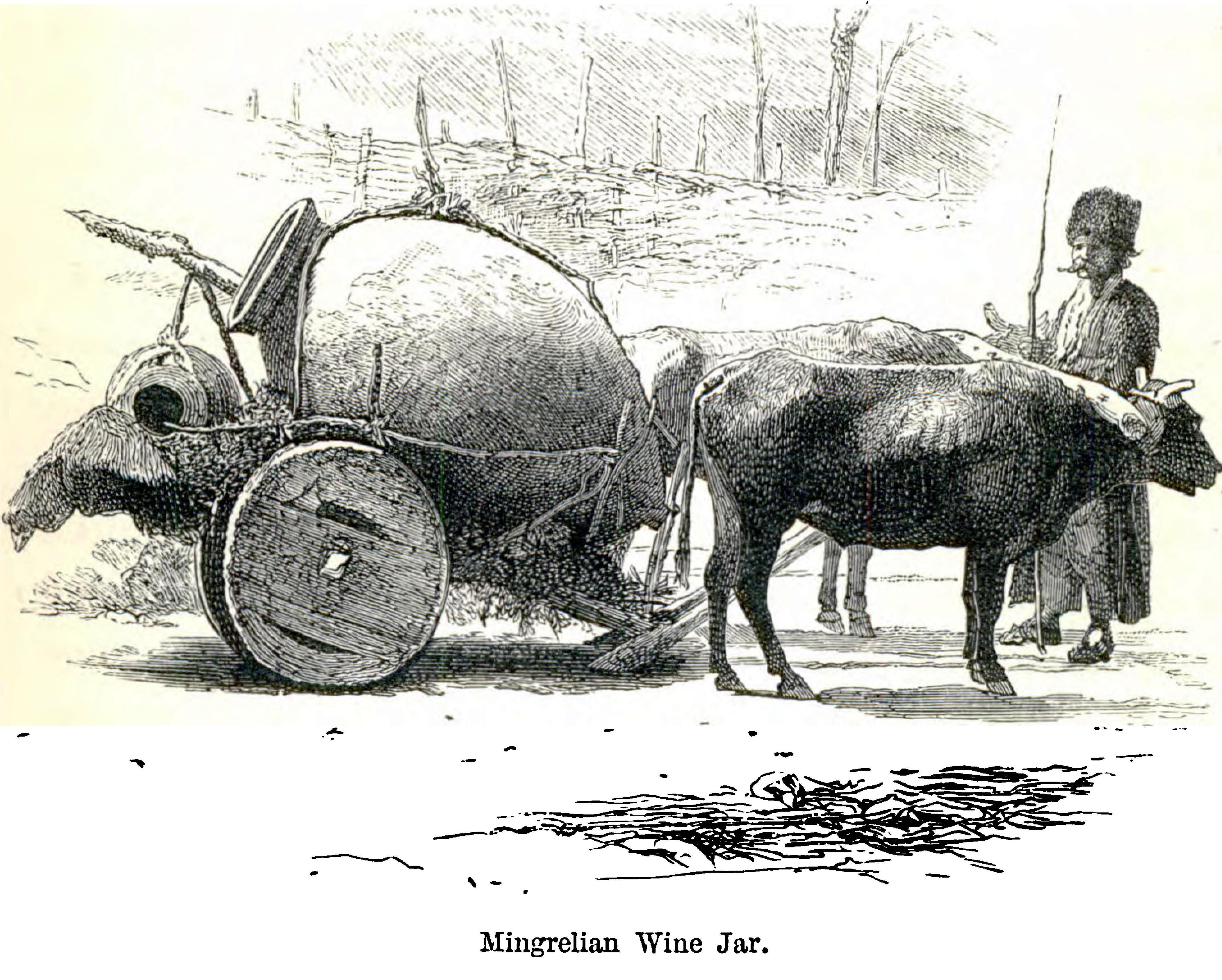 Travels in the central Caucasus and Bashan: including visits to Ararat and Tabreez and ascents of Kazbek and Elbruz